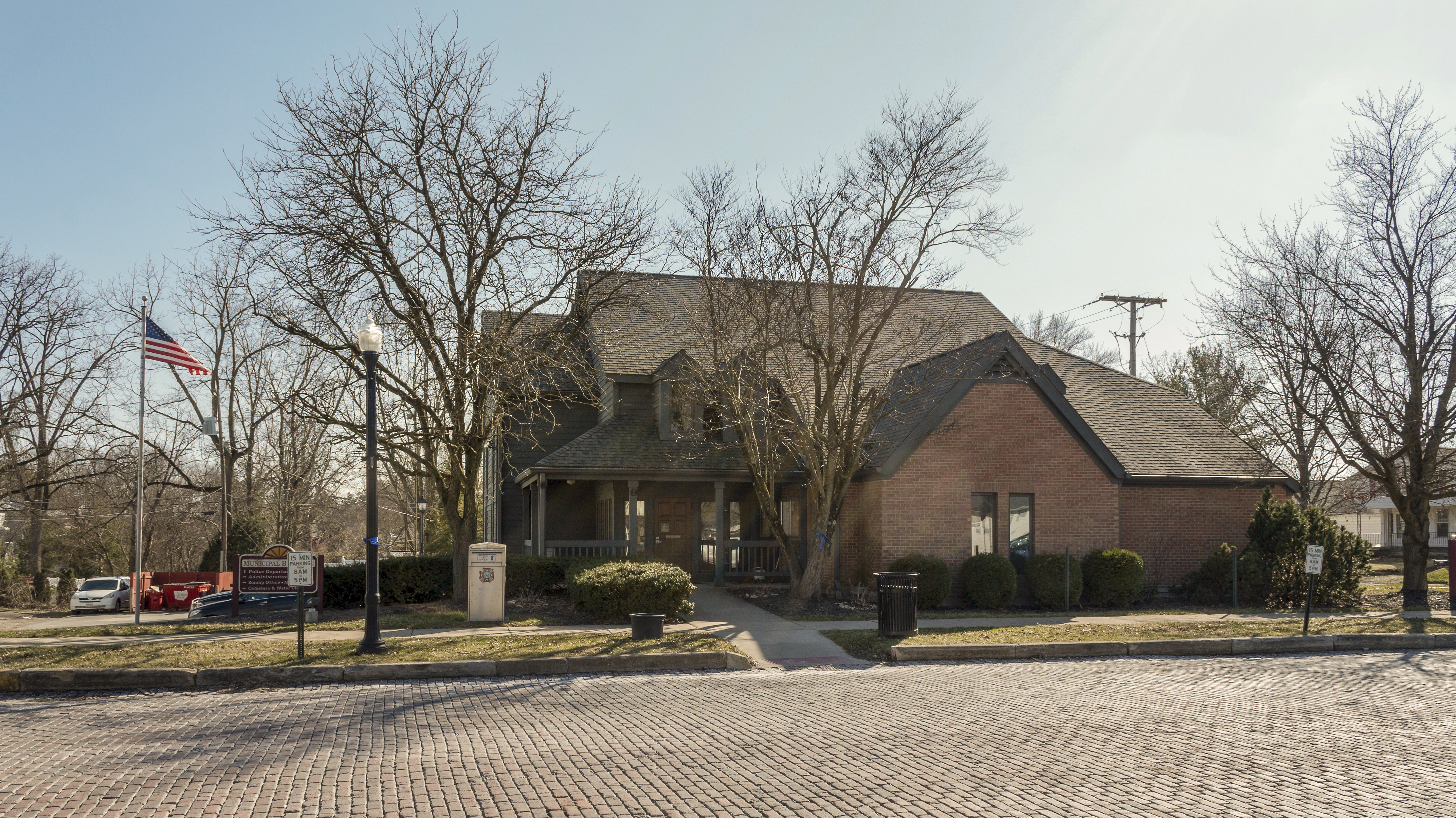 The administration building for Sunbury taken from the north in early March. The Police department and city zoning and handled out of this building.